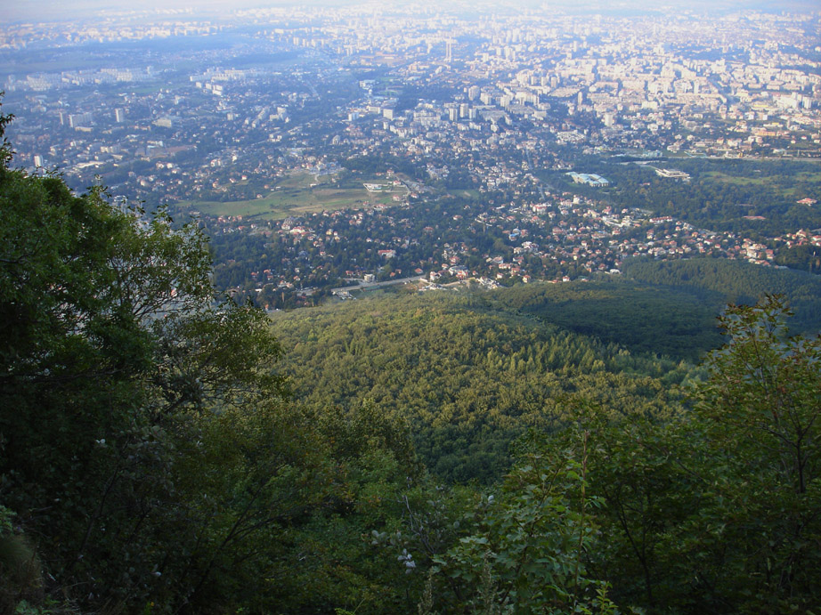 View from Vitosha Mountain Sofia, Bulgaria.